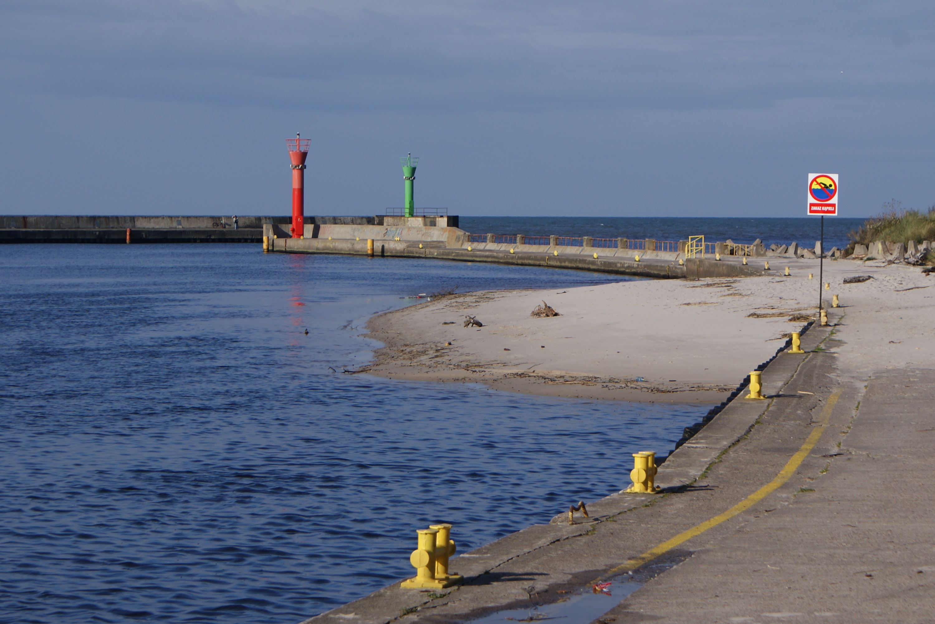 Shoal nearby the east breakwater of port of Mrzeżyno, Poland